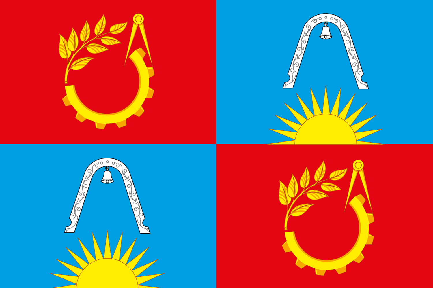 Balashikha (Moscow oblast), flag